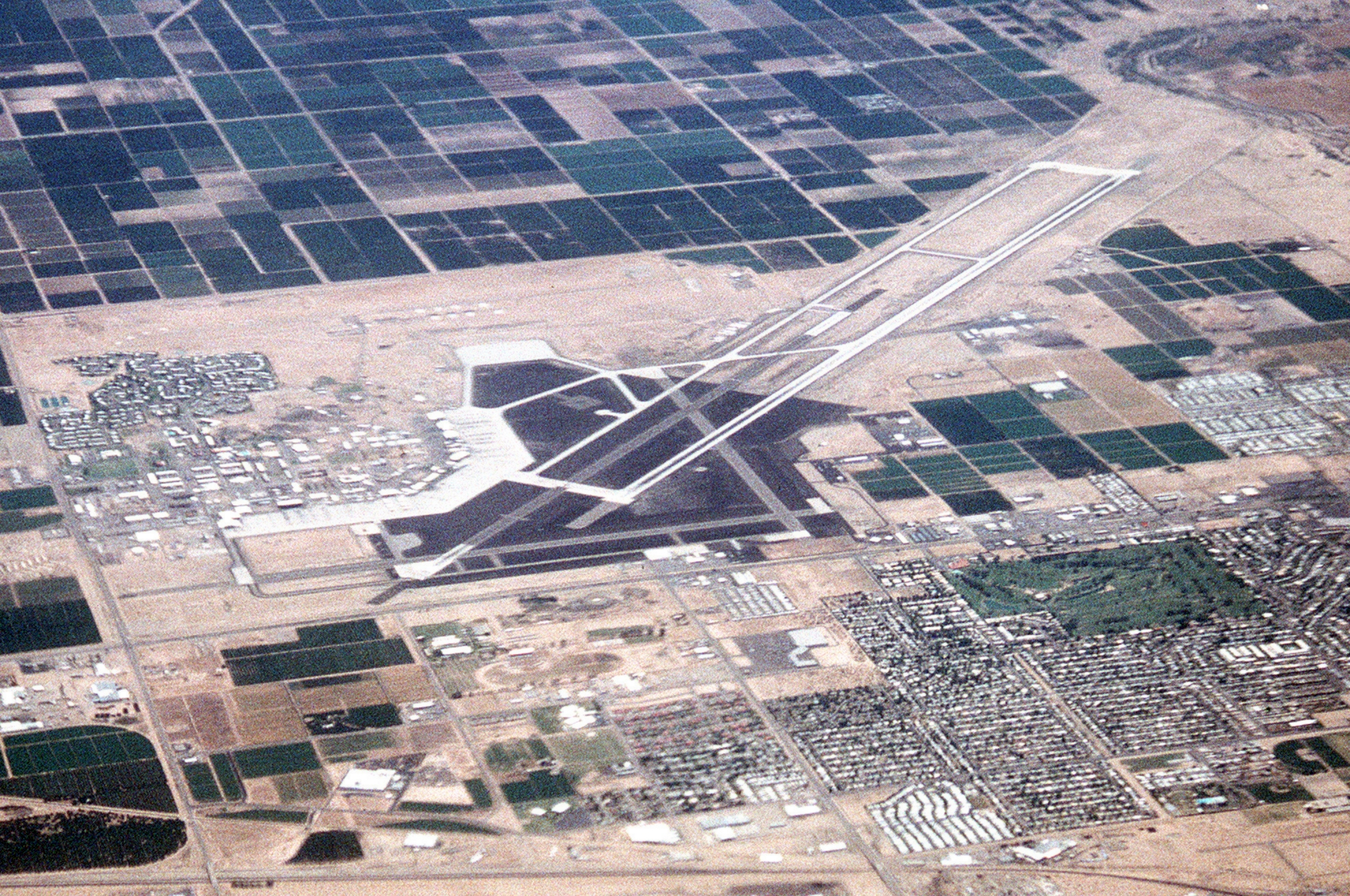 An aerial view of the U.S. Marine Corps Air Station Yuma, Arizona (USA), in 1992.